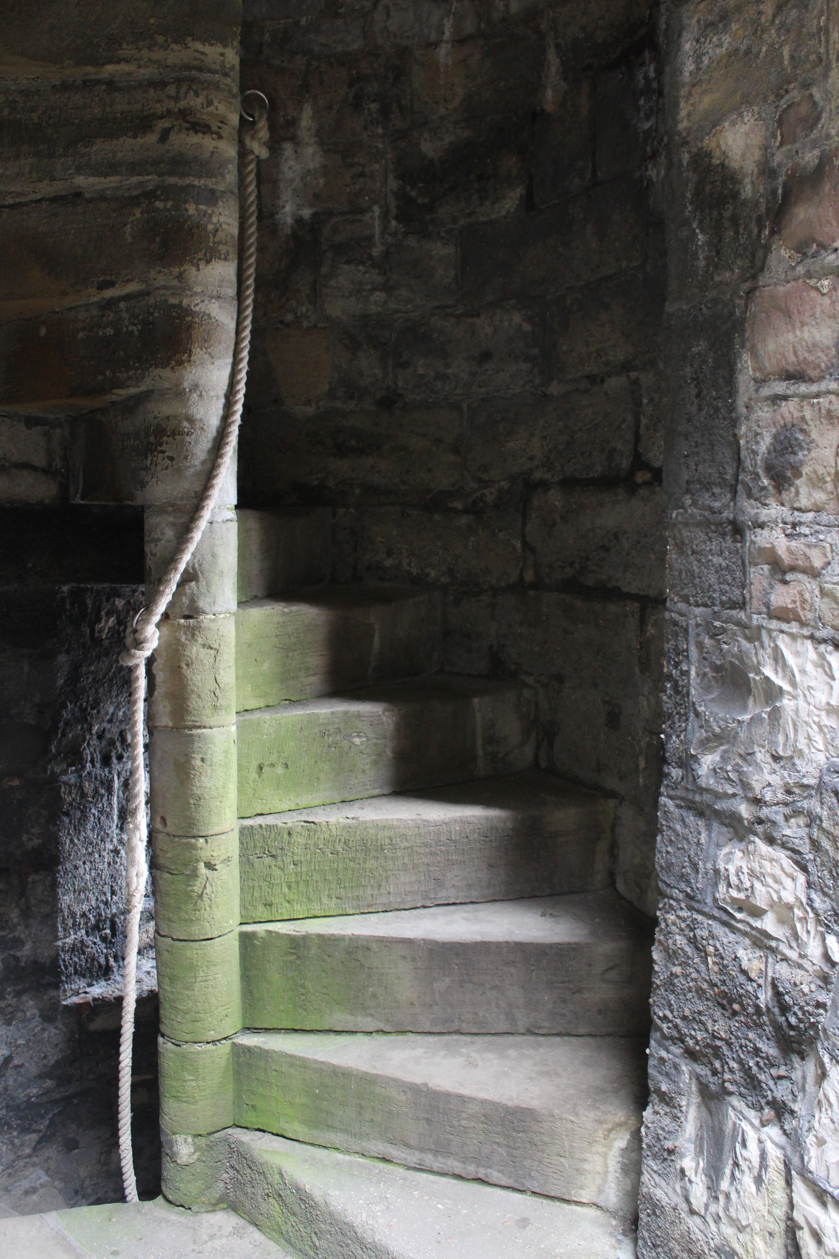 Spiral staircase in the Well Tower of Caernarfon Castle (built 1295-1323). This photo was taken through the entrance to the tower from the ramparts and shows stairs going down to ground level and up to the top of the tower. The underside of the staircase can be seen in the top left-hand corner. This staircase is typical of many medieval staircases in European castles and cathederals.